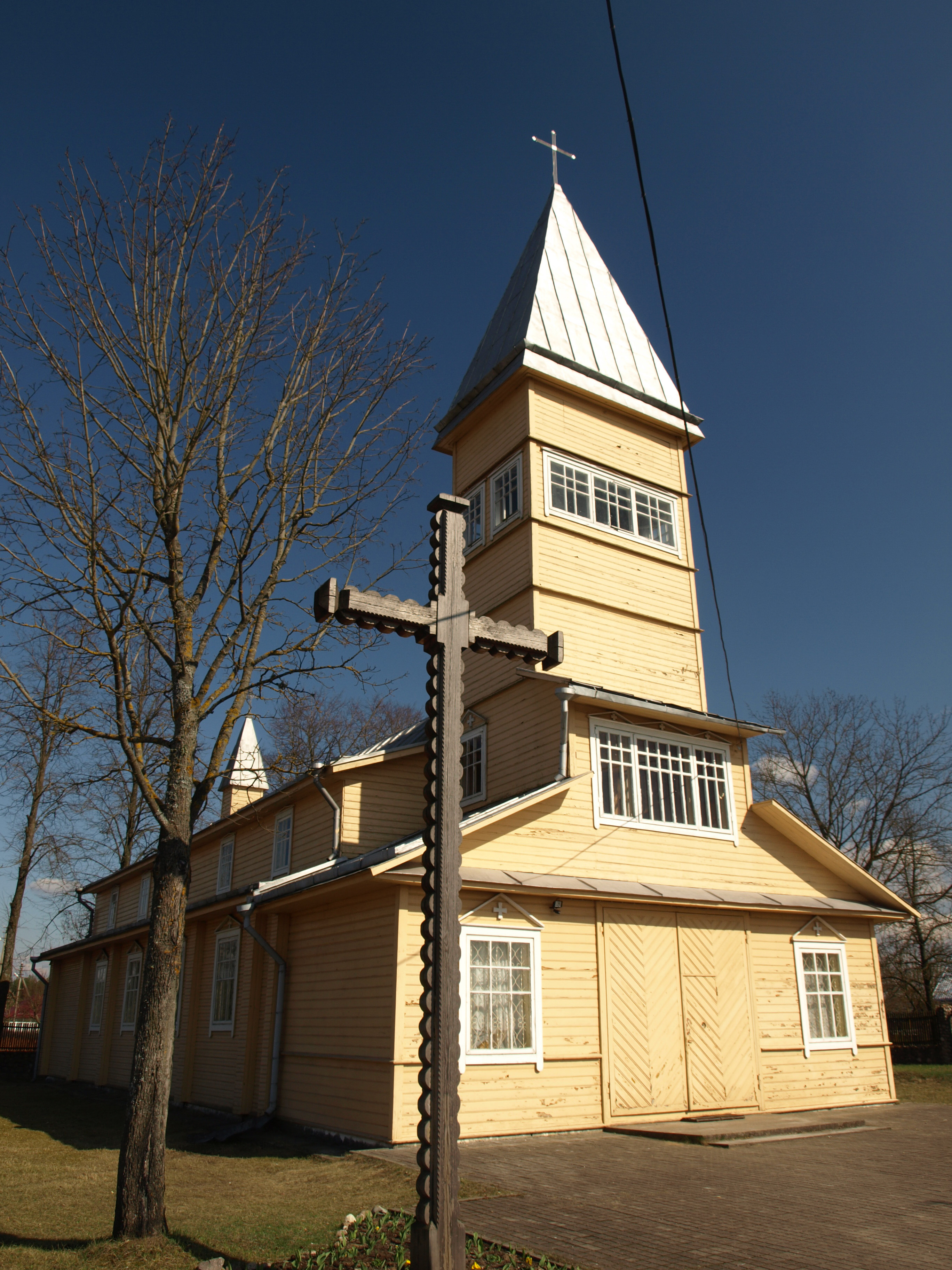 Paluknys church, Trakai district, Lithuania